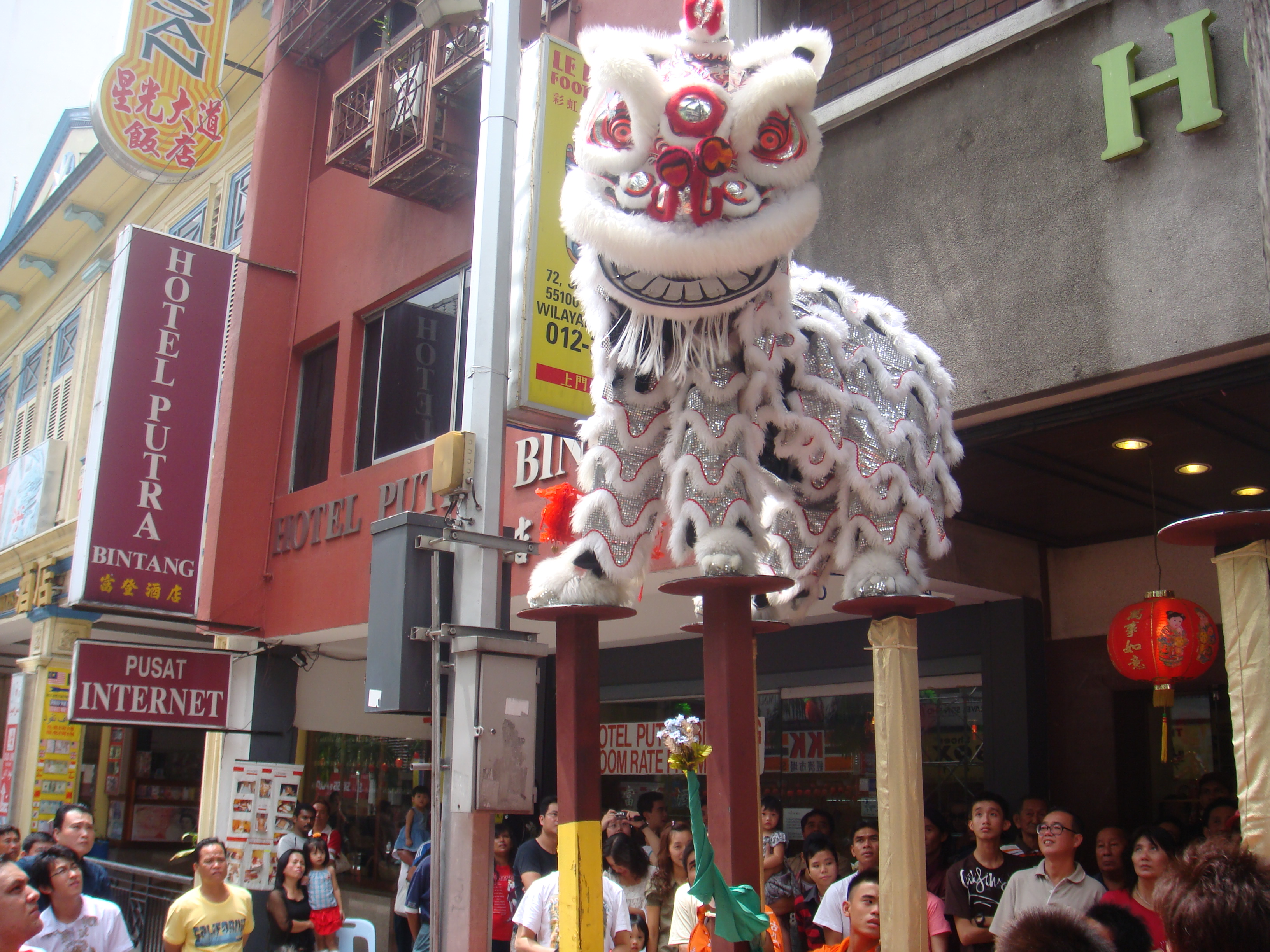 Lion dance in Kuala Lumpur, Malaysia.